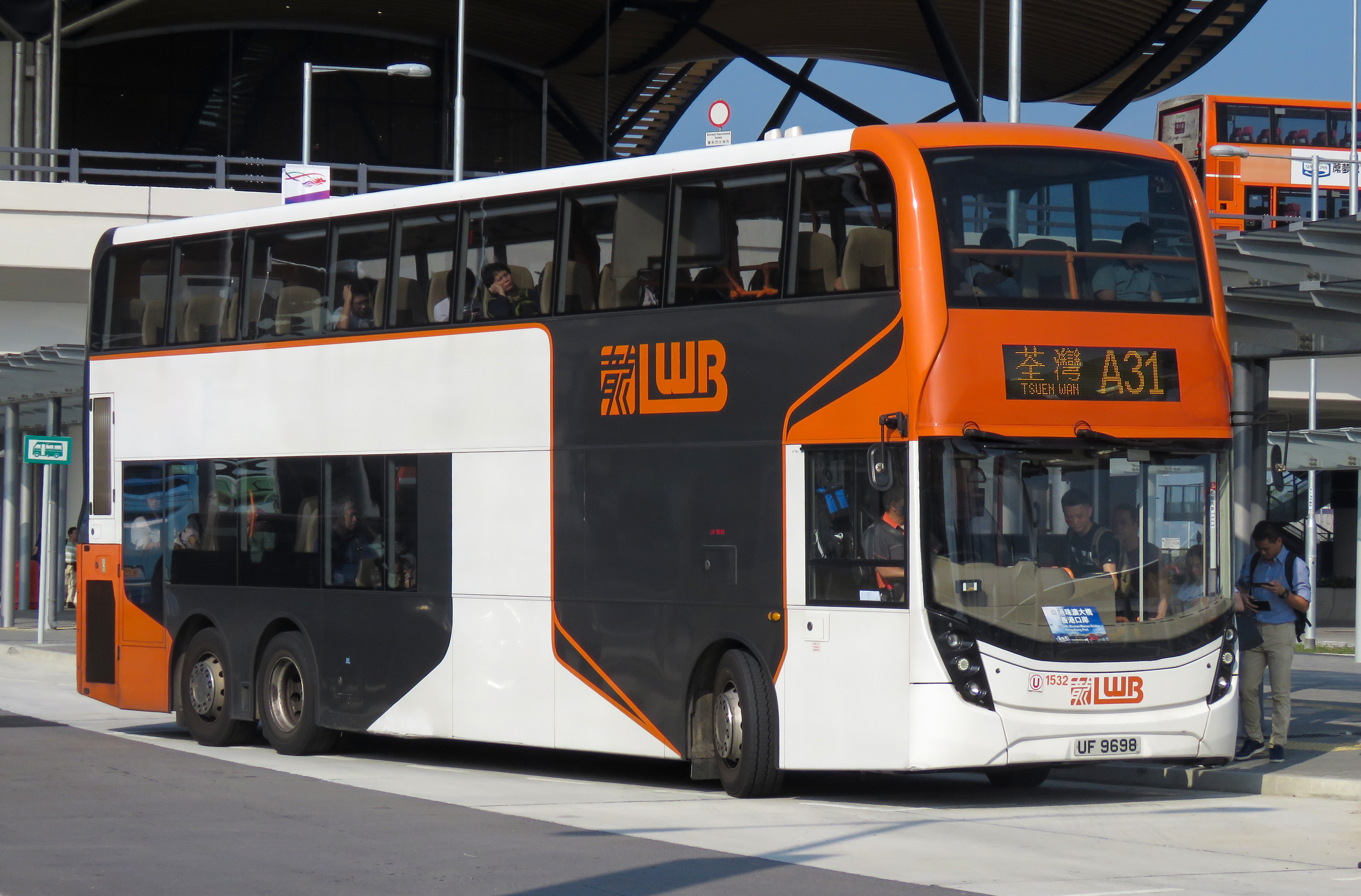 Isn't it the one I just rode?